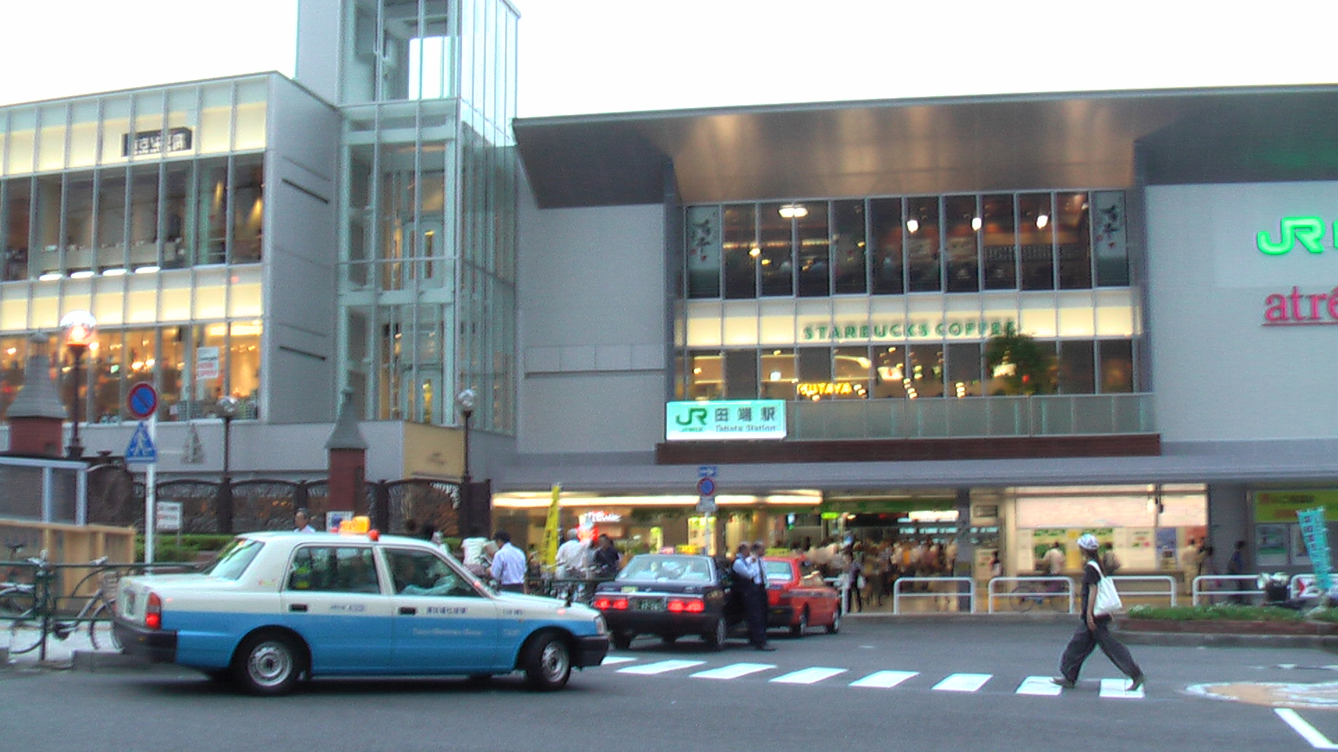 This is Tabata (田端) station, North exit. This is a wide shot, showing most of the new exit.